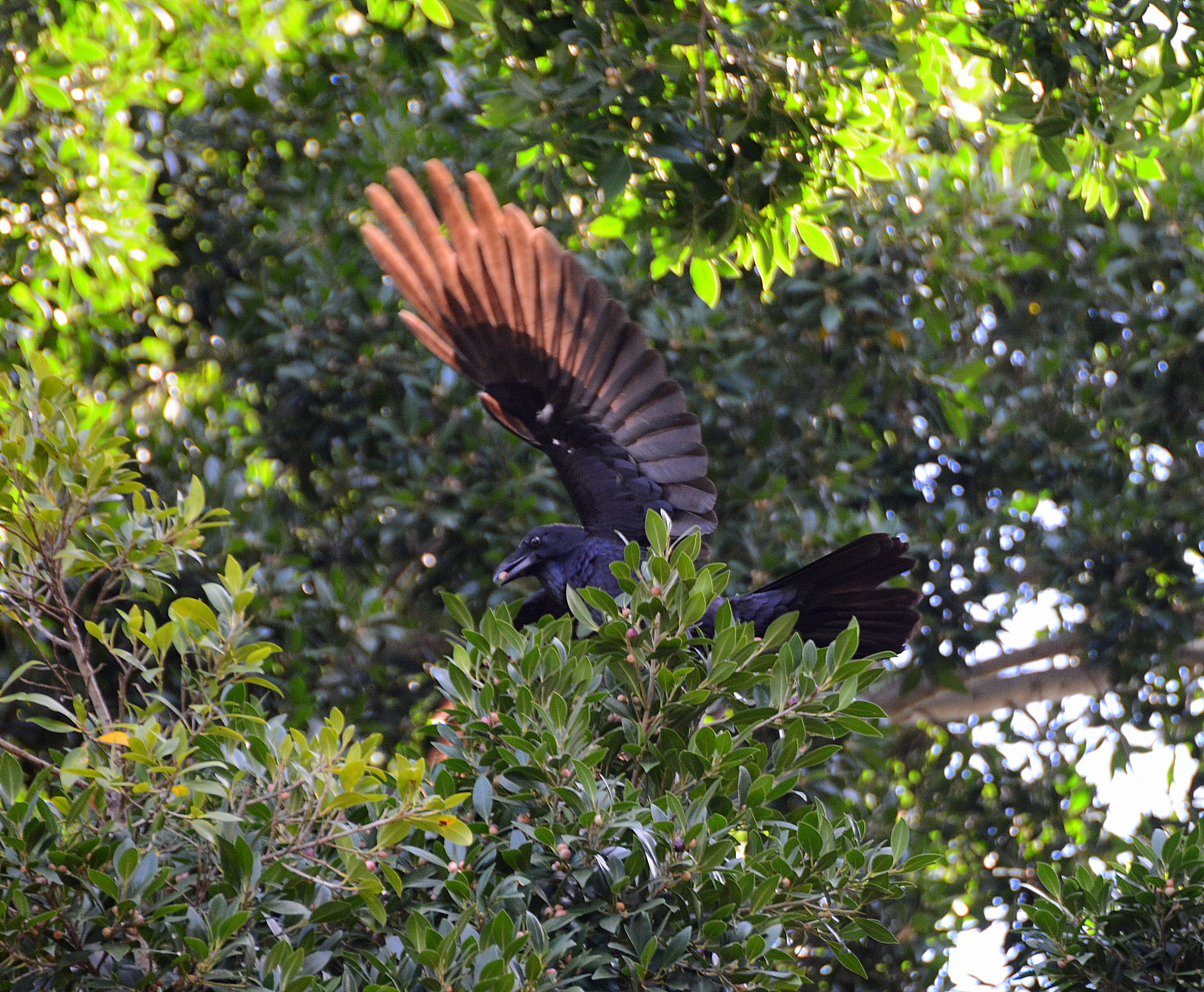 Crow, Coronation Park, Auburn, Sydney